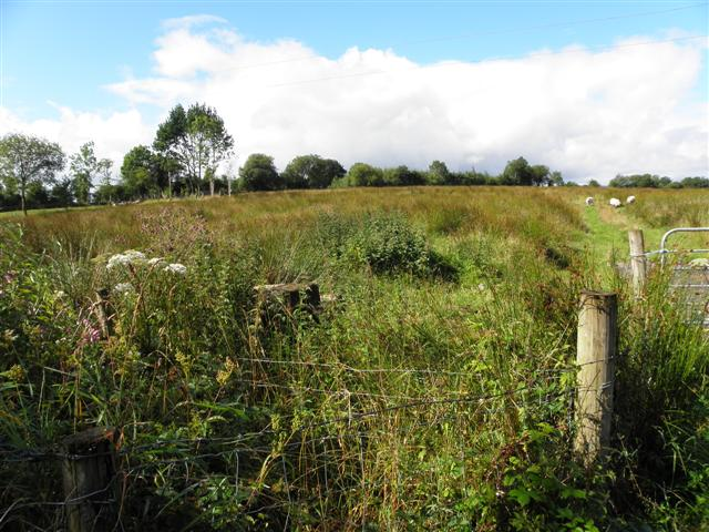 Looking from Gortmore into Gortullaghan Townland